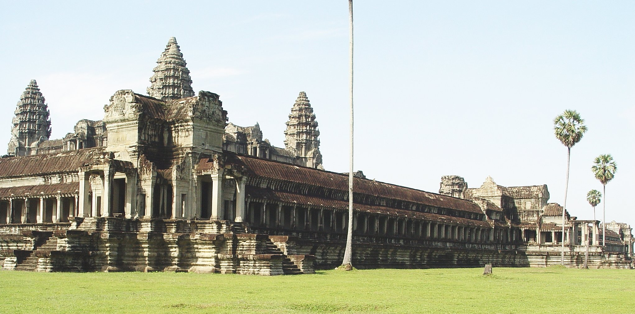 The inner Angkor Wat complex from the North-West corner within the inside of the outer wall.